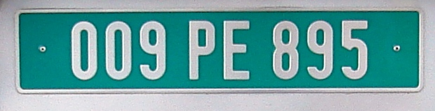 License plate for international organisations in Madagascar